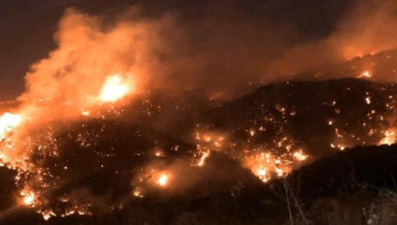 wildfires in lebanon 2019